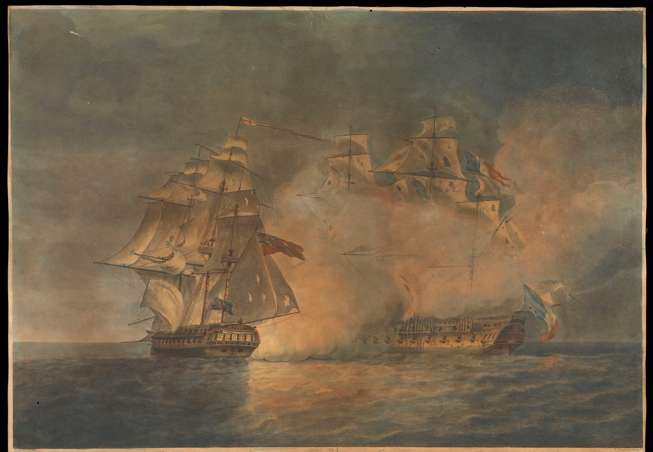 Capture of the French Frigate La Tribune byThe Unicornlabel QS:Len,"Capture of the French Frigate La Tribune byThe Unicorn" label QS:Lfr,"Bataille des frégates Unicorn et la Tribune le 8 juin 1796"